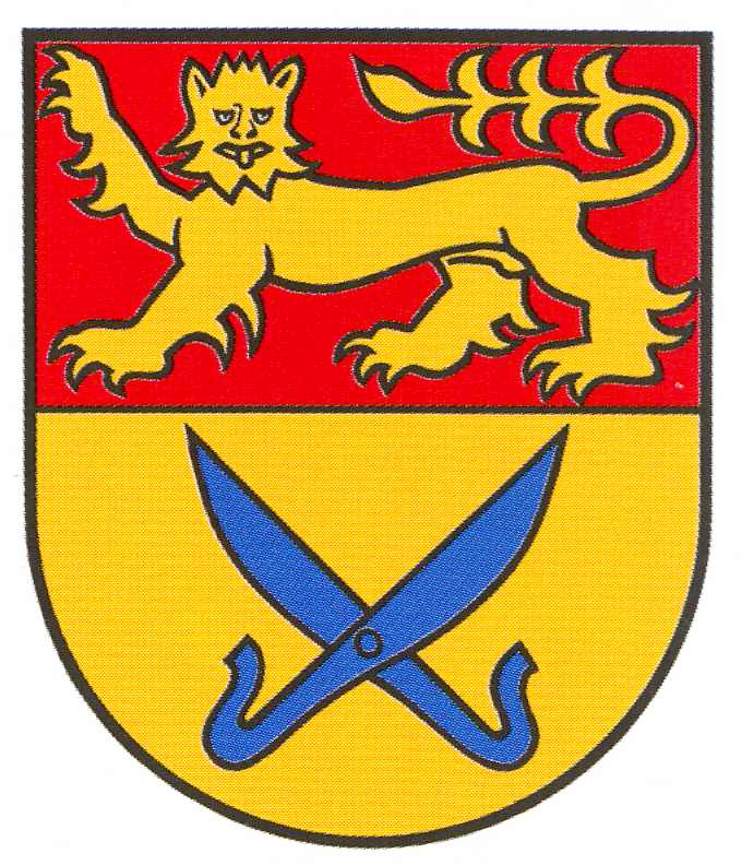 Coat of Arms of Jerxheim